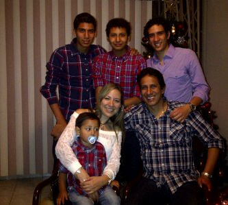 Foto de Pepe Pancho junto a sus hijos y esposa